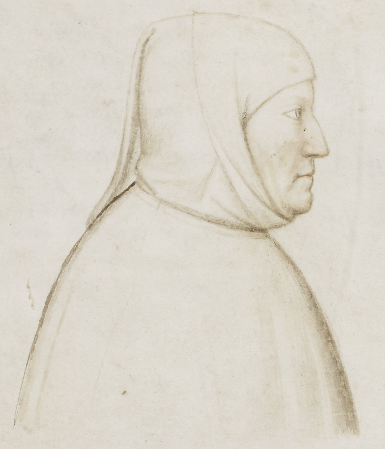 detail from the Table of Contents page to De Viris Illustribus, 1379 (BnF MS Latin 6069F).